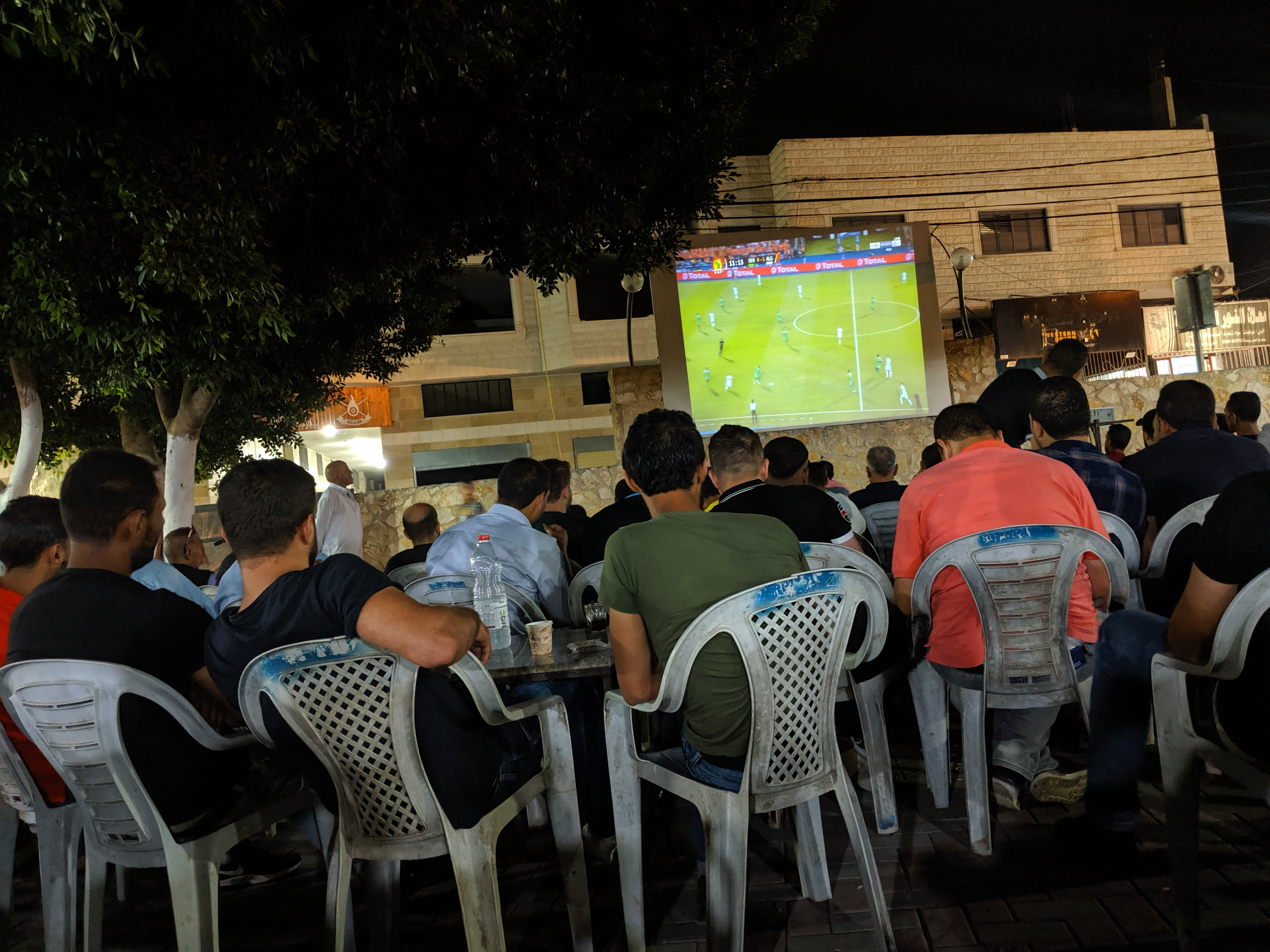 Coffee shops during CAF AFRICA CUP OF NATIONS 2018